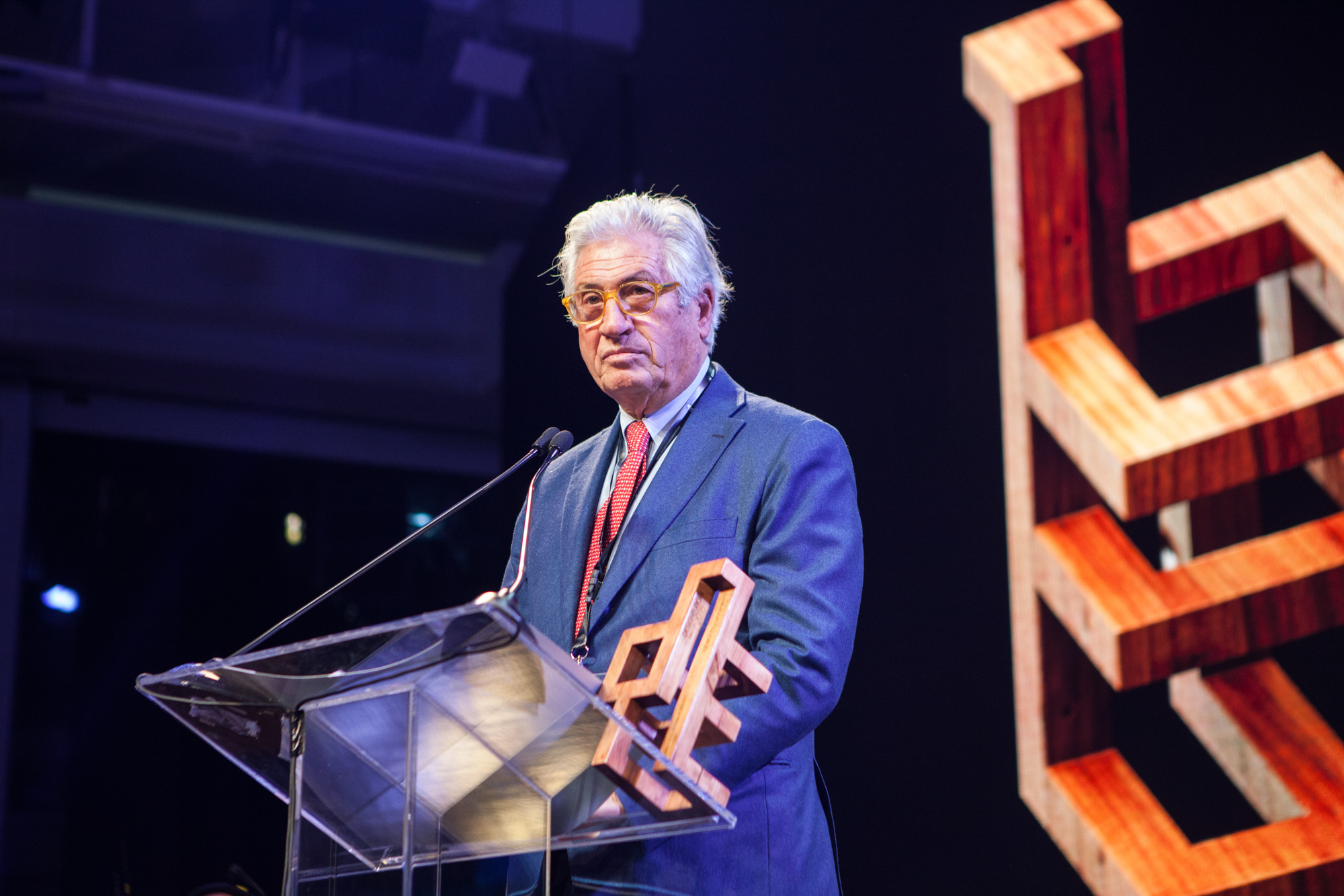 GiorgettoGiugiaro at the DesignEuropa Awards 2016 ceremony.